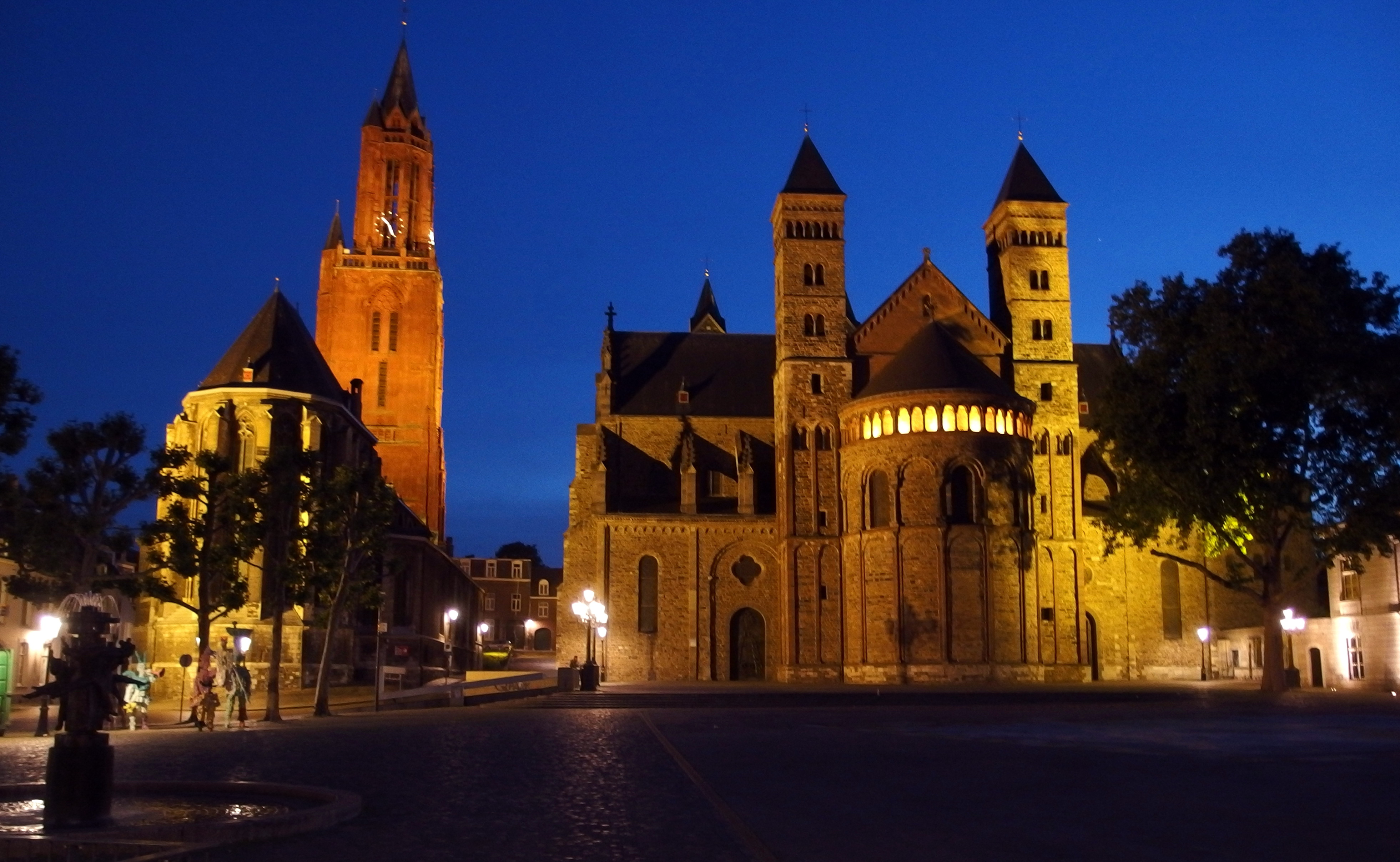 2014-05-25 in Maastricht; Sint-Janskerk and Sint-Servaasbasilica at dusk.